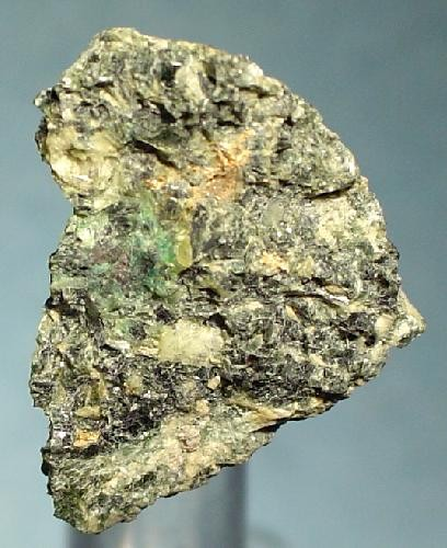 Auricupride Locality: Zolotaya Gora (Zlataya Gora; Zlatoya Gora) Au deposit, Soimon Valley, Karabash (Karabasch), Chelyabinsk Oblast', Southern Urals, Urals Region, Russia (Locality at ) Size: 1.7 x 1.3 x 0.7 cm. Auricupride is an ULTRA-RARE copper and gold alloy. This thumbnail features several clusters of rich, coppery-gold auricupride microcrystals on matrix from the Type Locality - Zolotaya Gora in the Urals. Rarely available. Ex. Fersman Museum of Moscow specimen.